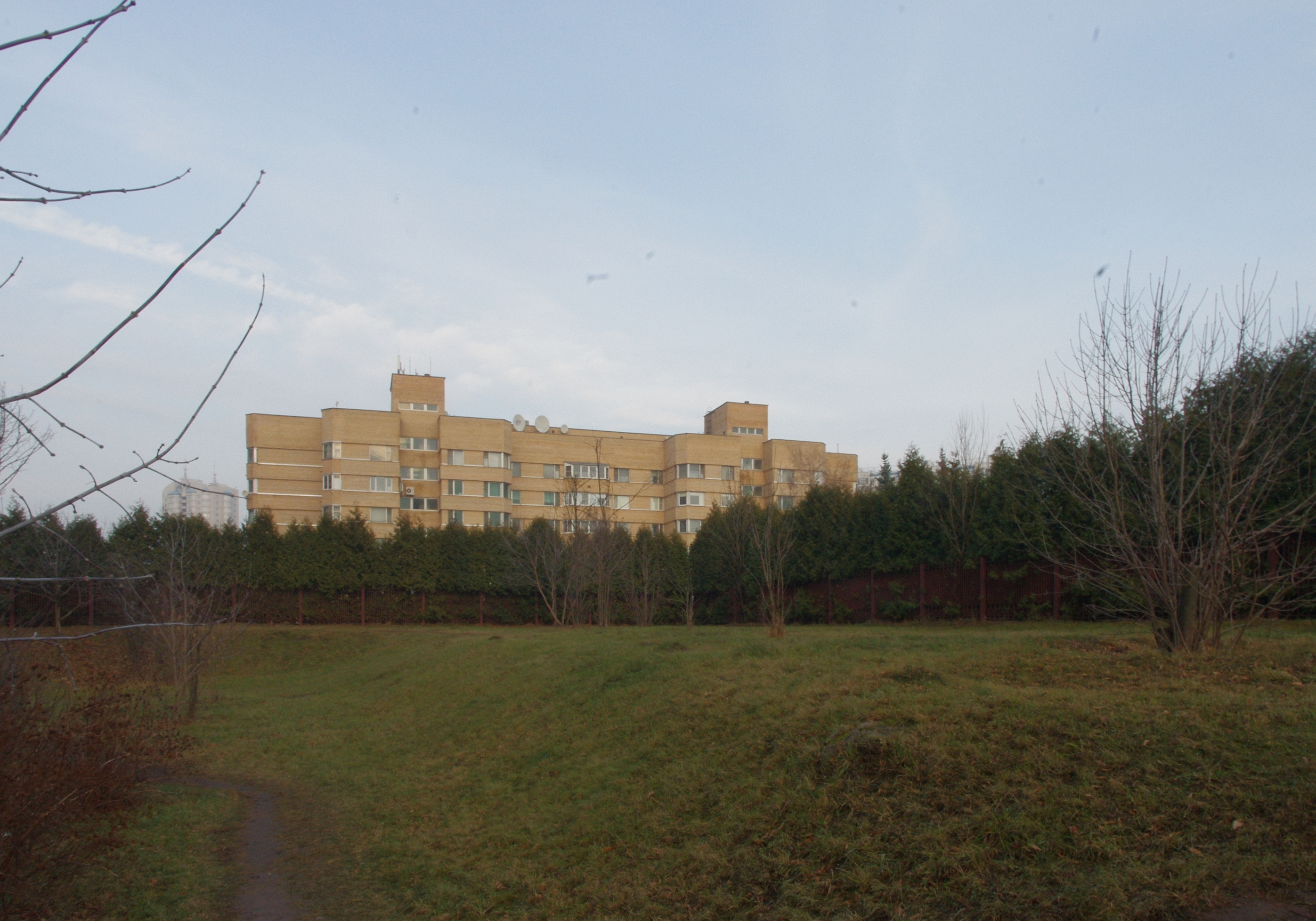 Krylatskoye District, Moscow, Russia